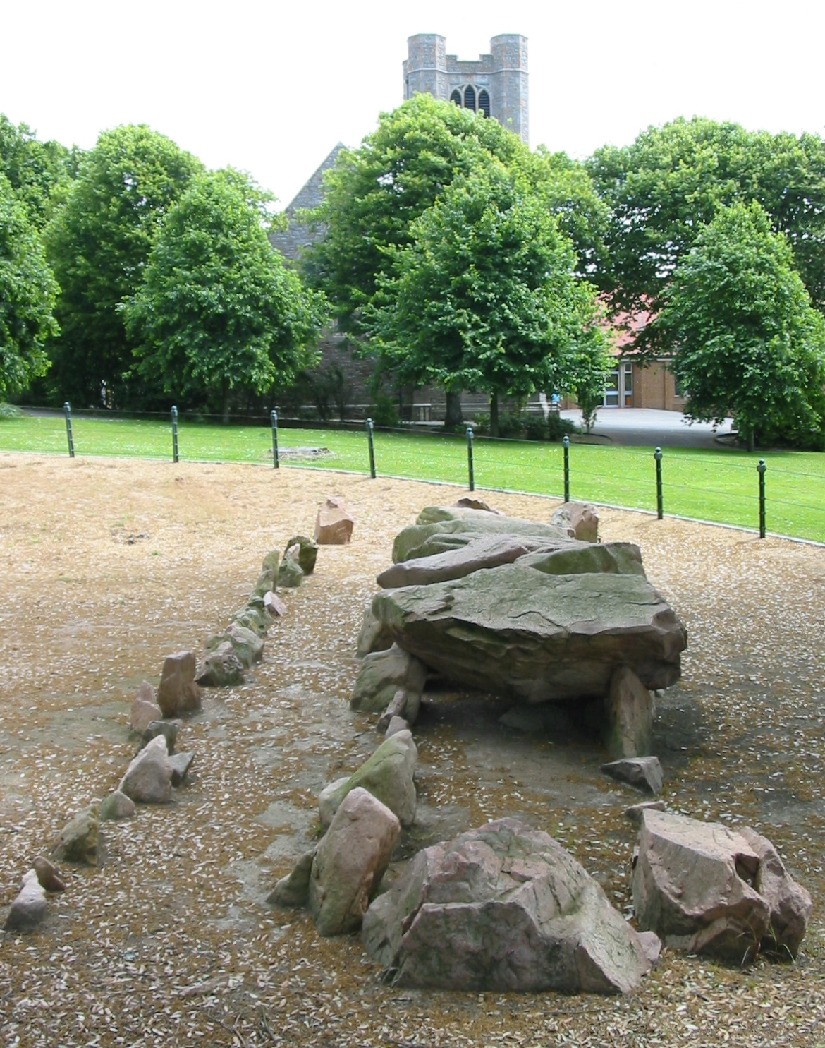 First Tower, Saint Helier, Jersey